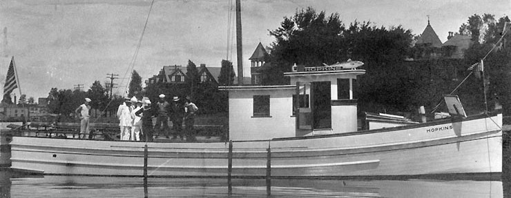 The fishing boat Hopkins probably at the time of her inspection by the 5th Naval District at Norfolk, Virginia, for possible naval service because US Navy personnel are on her decks. She later served as the US Navy patrol vessel USS Hopkins (SP-3294).